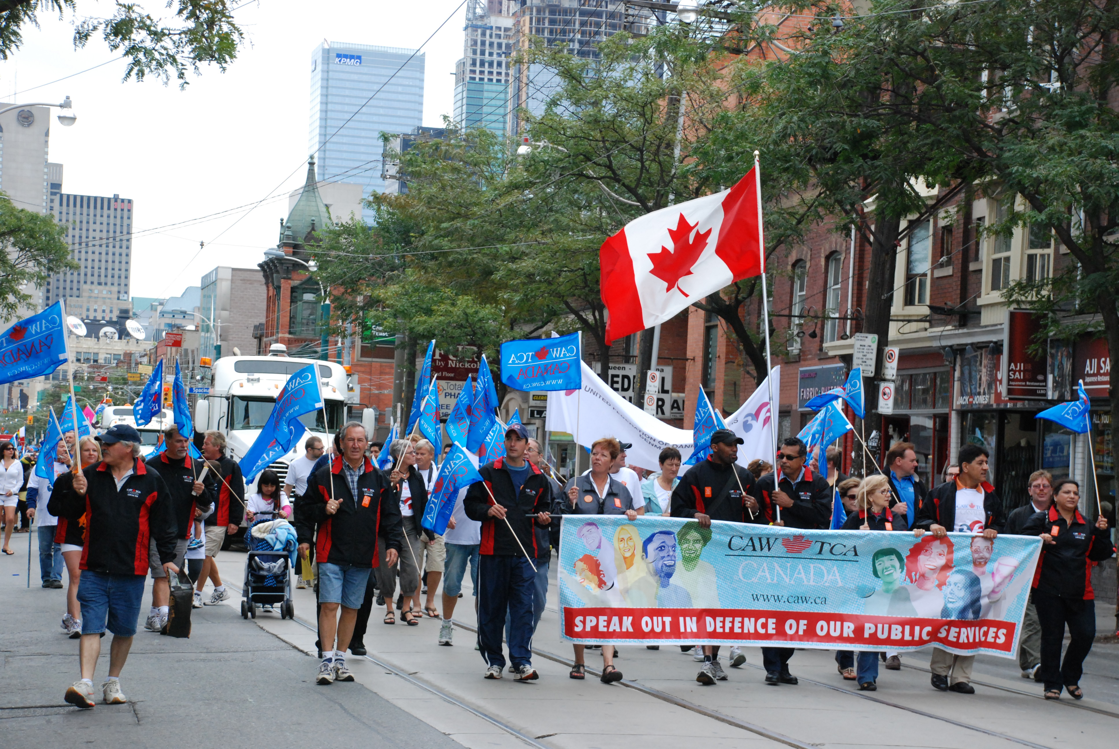 Labour Day Toronto 2011 139